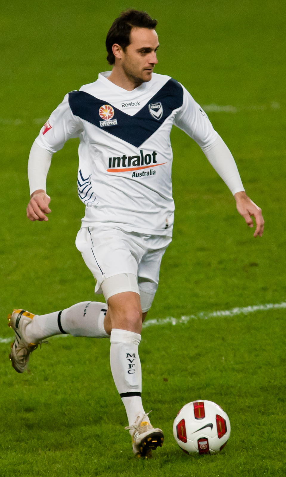 Tom Pondeljak playing for Melbourne Victory FC in Round 1 of the 2010-11 A-League against Sydney FC.